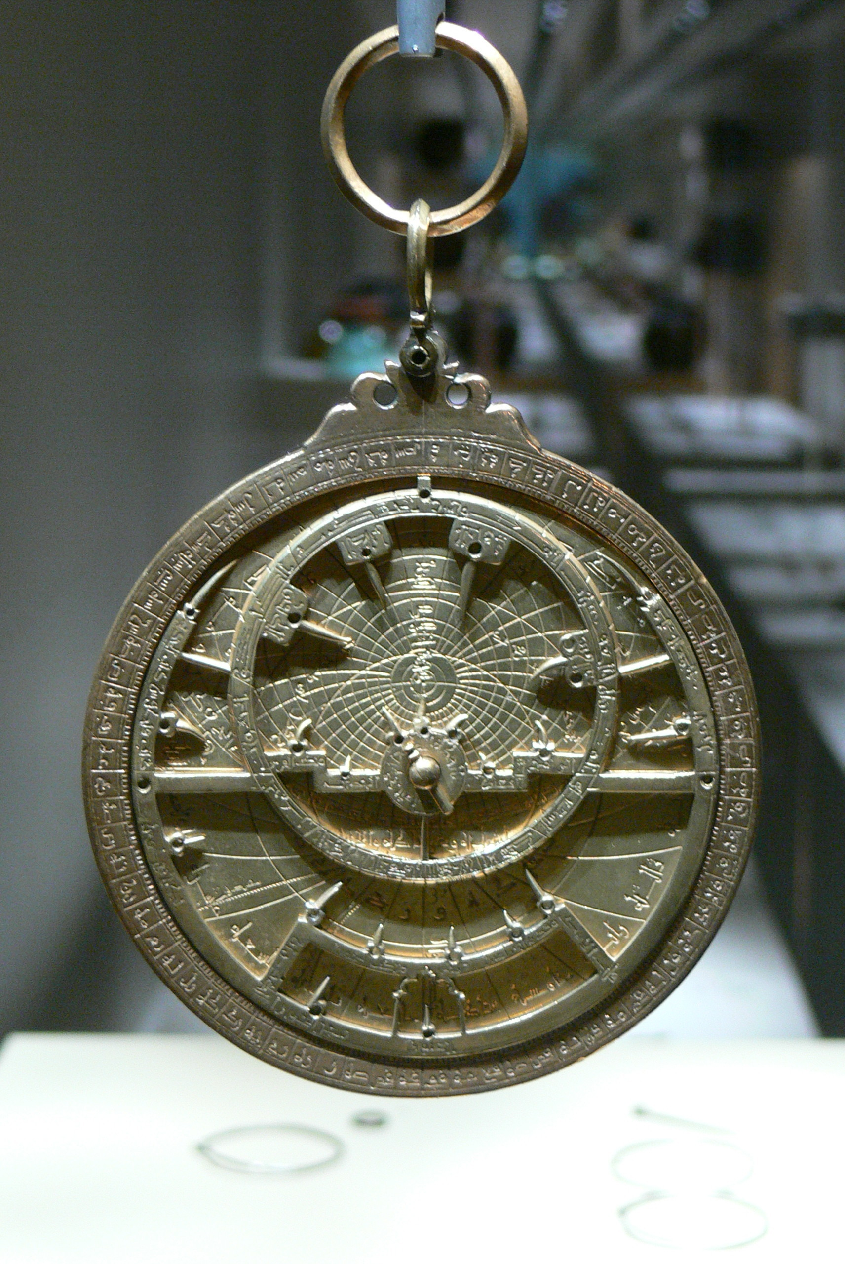 German National Museum ( Nuremberg / Germany ). Arab astrolabe ( 1080 ) of Ahmad ibn Muhammad al-Naqqhash, from Zaragoza ( Spain ).